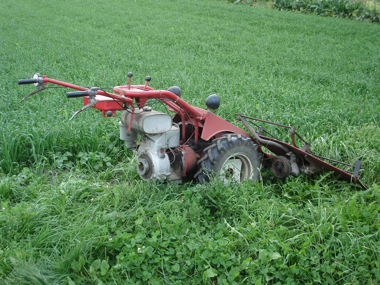 AEBI motor mower AM 40